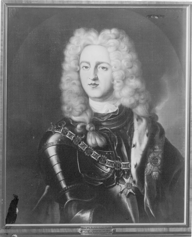 Johann Christian von Sulzbach (1700-1733)